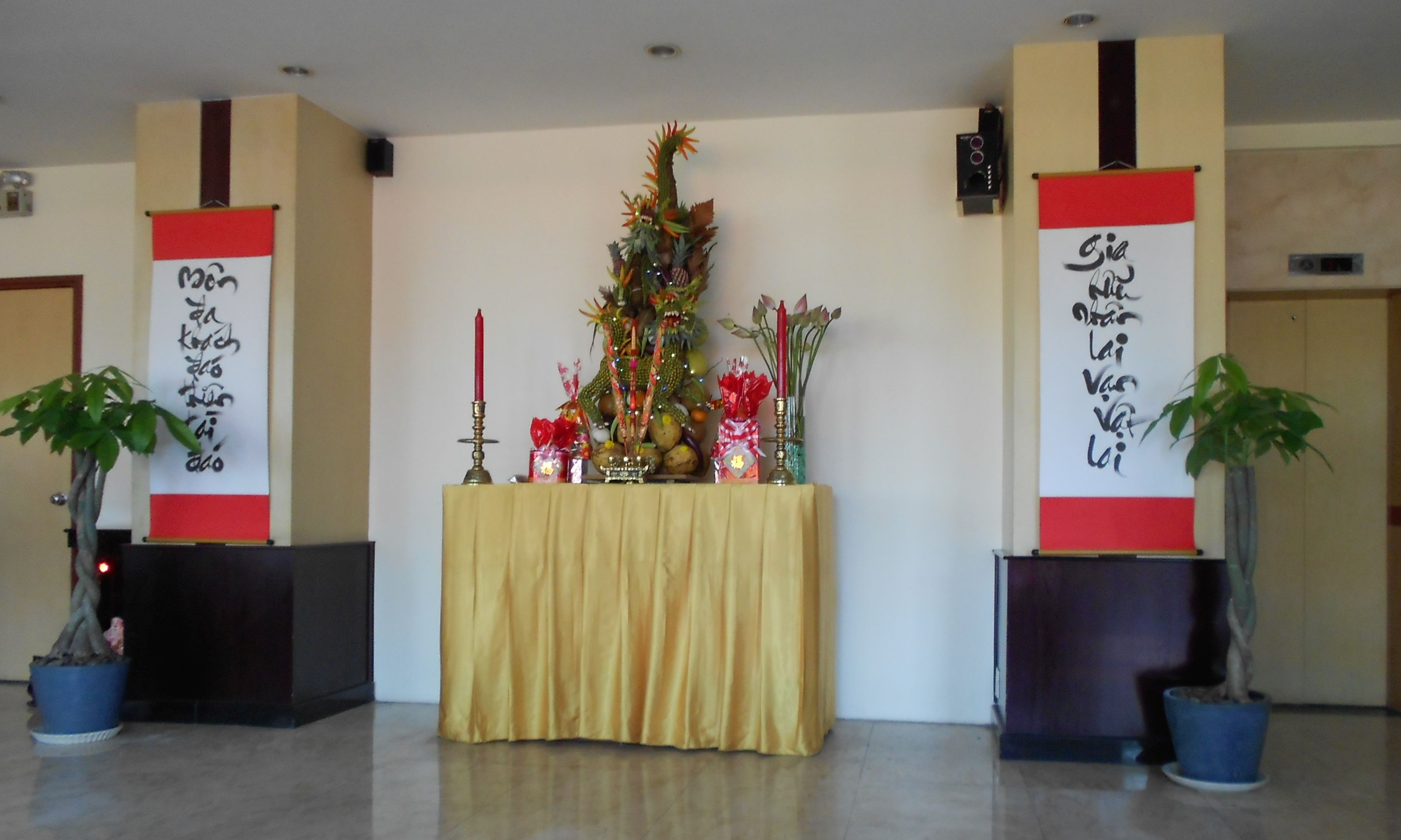 Decoration in a hotel lobby in Ho-Chi-Minh-City (Saigon), 2012